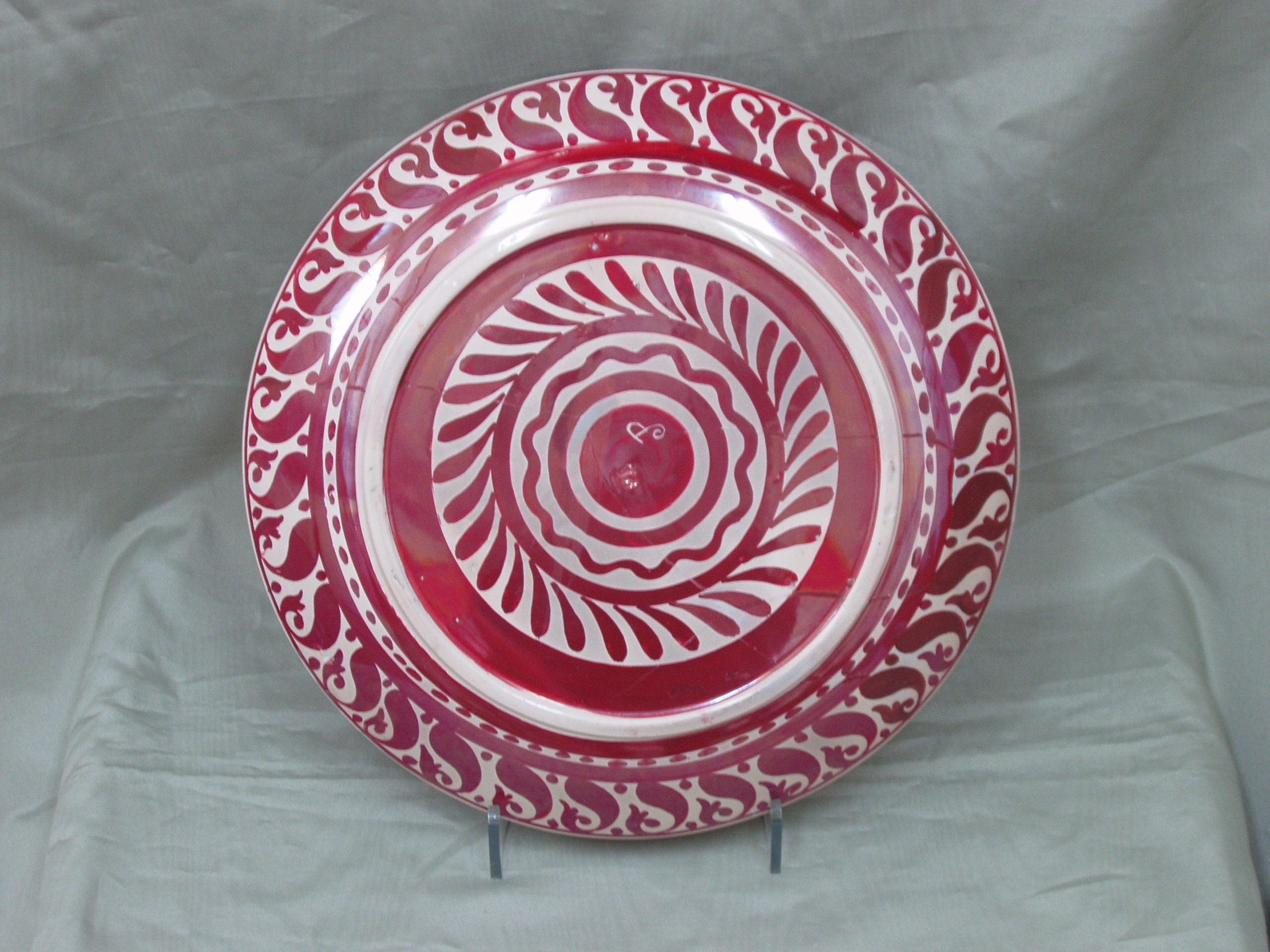 This charger is unusual in that it was decorated by John Pearson, better known as a founder member of the Guild of Handicraft in 1888. Prior to 1888 Pearson worked at William De Morgan's pottery works and it is believed that his later metalwork was inspired by his time at the works. The mark on the back of this charger appears to provide incontrovertible evidence that Pearson worked as a decorator for De Morgan.